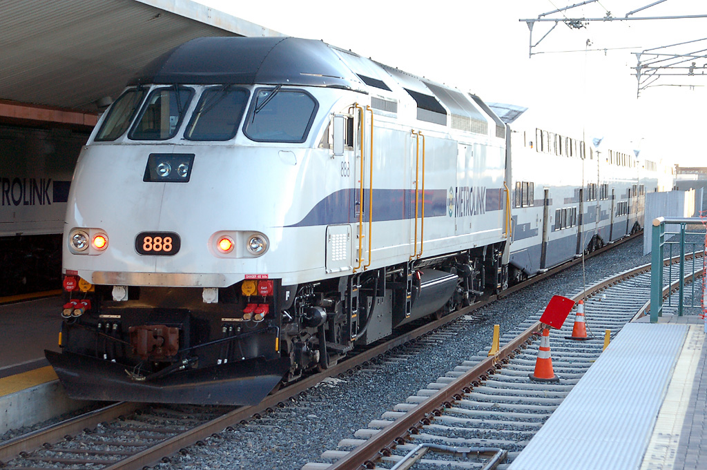 Metrolink MP36PH-3C locomotive #888 at Los Angeles Union Station